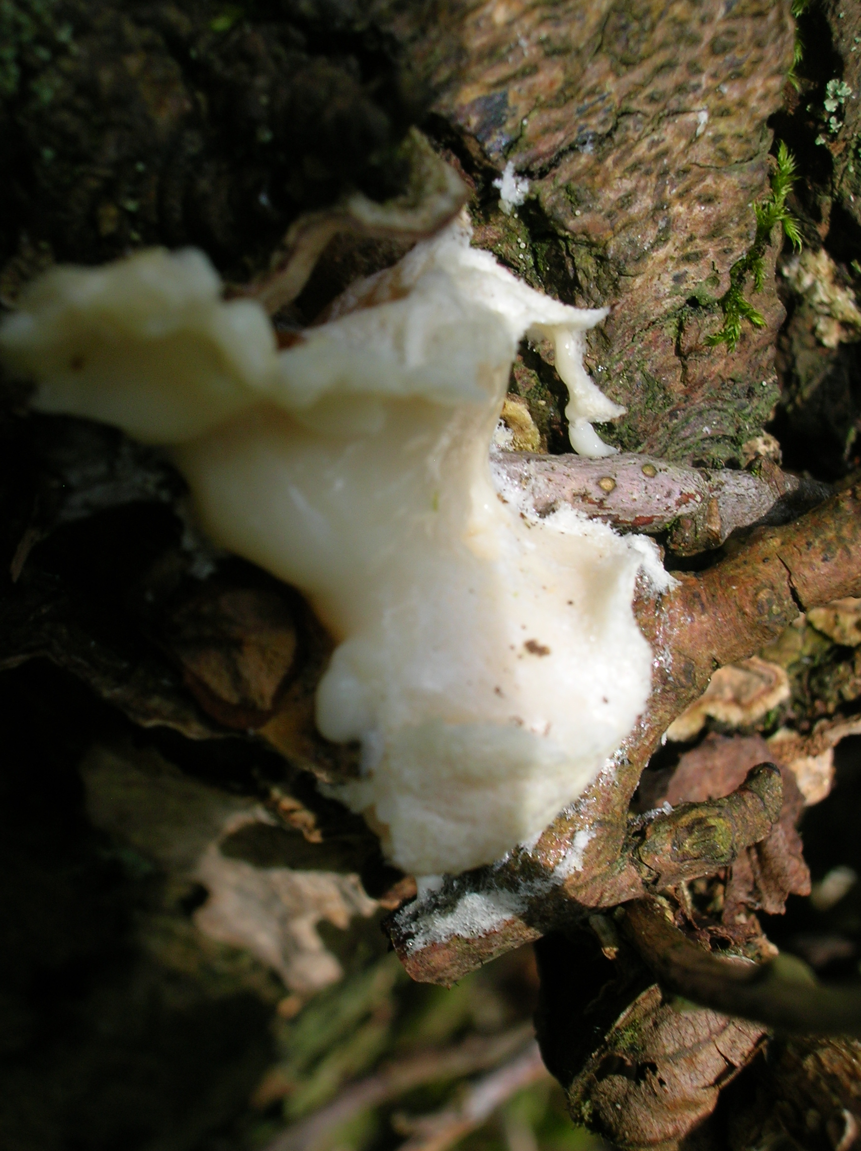 Enteridium lycoperdon, (Bull.) M.L. Farr, 1976 (Reticularia lycoperdon) with surface broken and the liquid contents of this stage showing. Spier's Old School Grounds, Beith, North Ayrshire, Scotland.